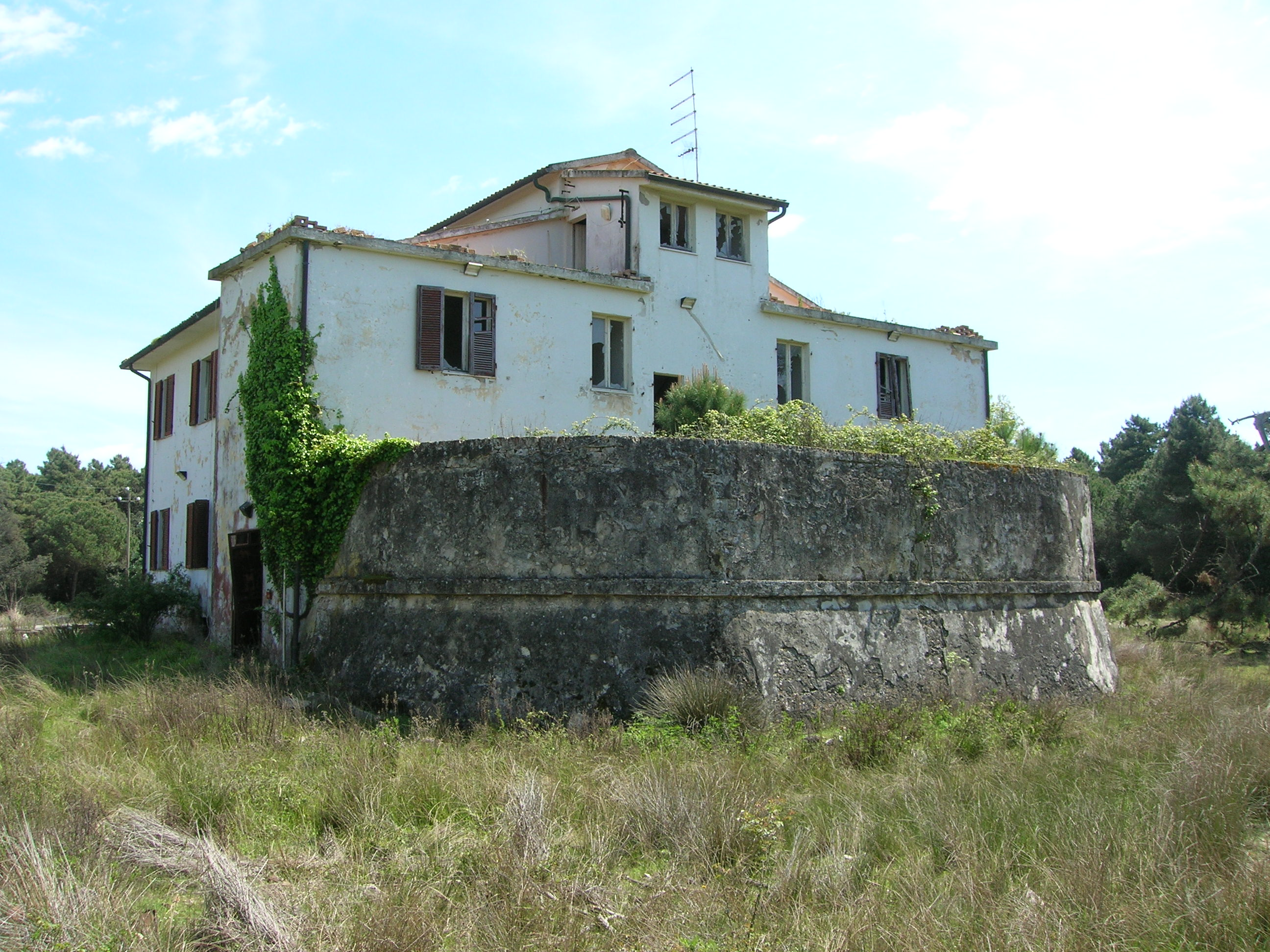 Barracks in Gombo, San Rossore, Pisa, Tuscany, Italy